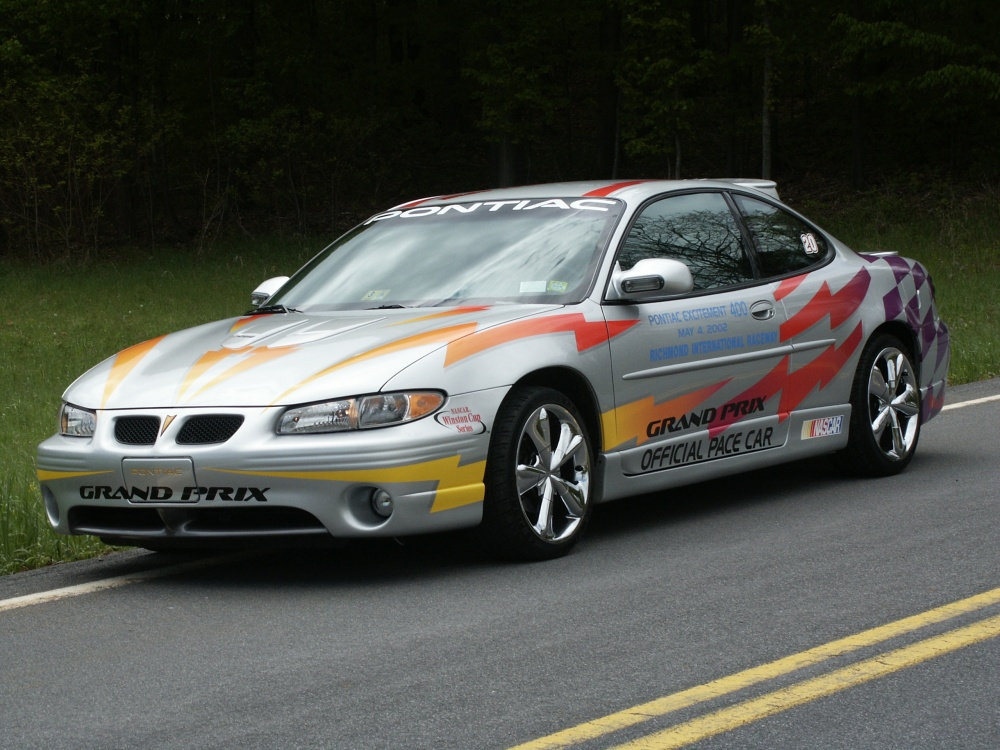 2001 NASCAR Pace Car Licensing